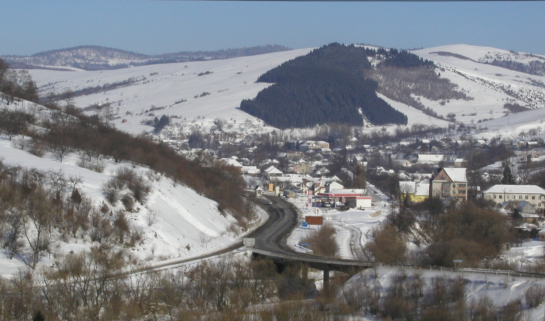 Panoramic viev of Nyzhni Vorota (Trancarpathian oblast, Ukraine)